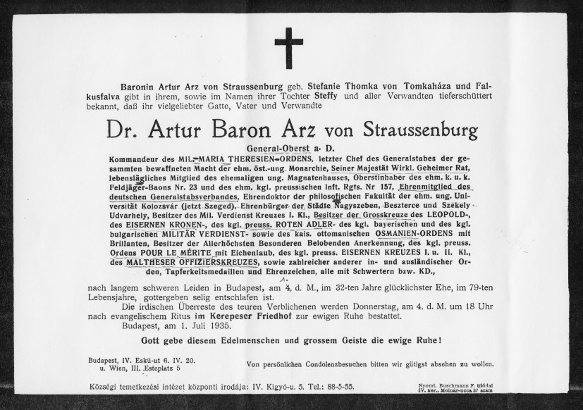 Obituary notice of Colonel General Arthur Arz von Straussenburg, died in 1935, chief of general staff of the Autro-Hungarian Army in 1917-1918